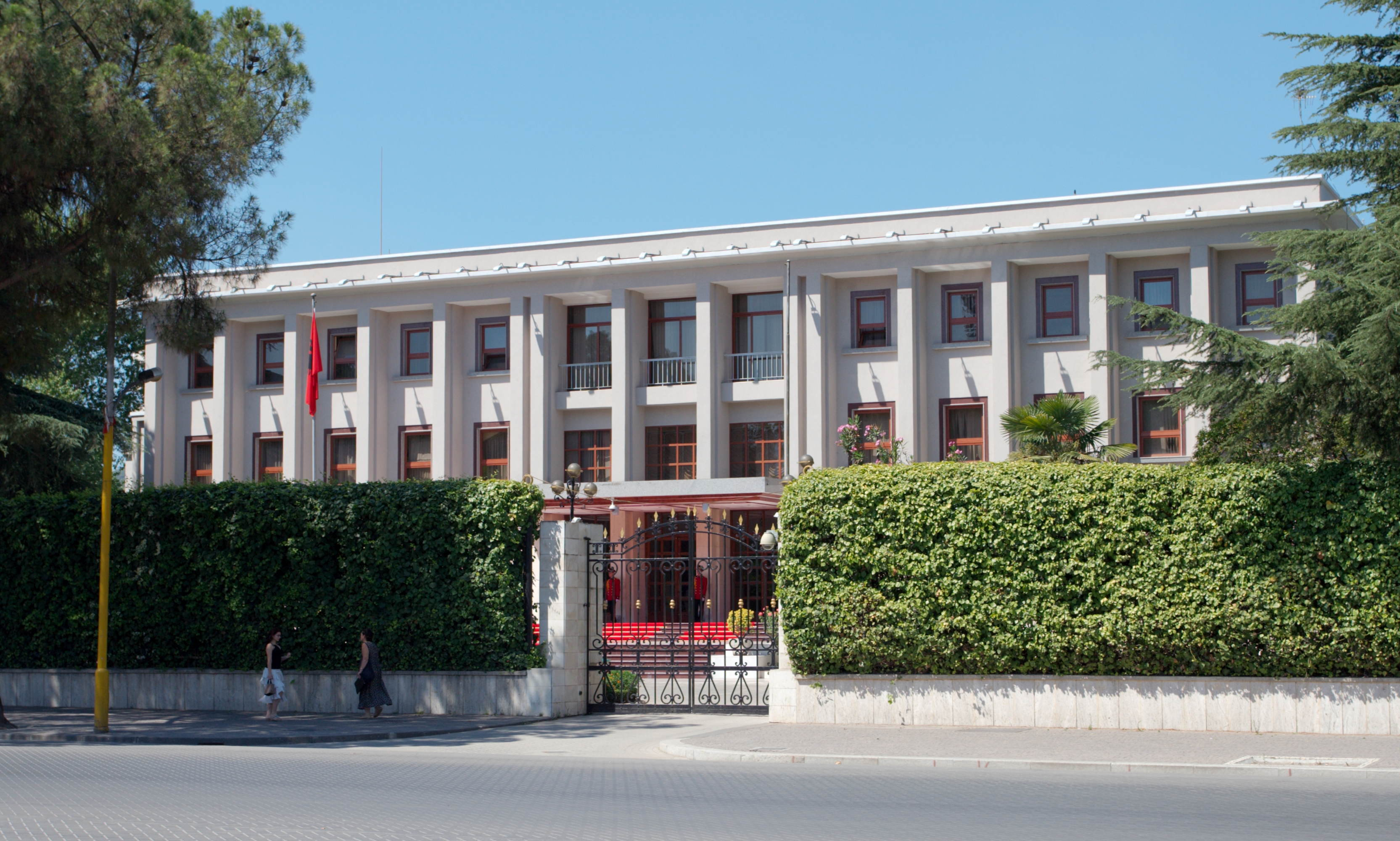 The Presidential Palace, Tirana, Albania